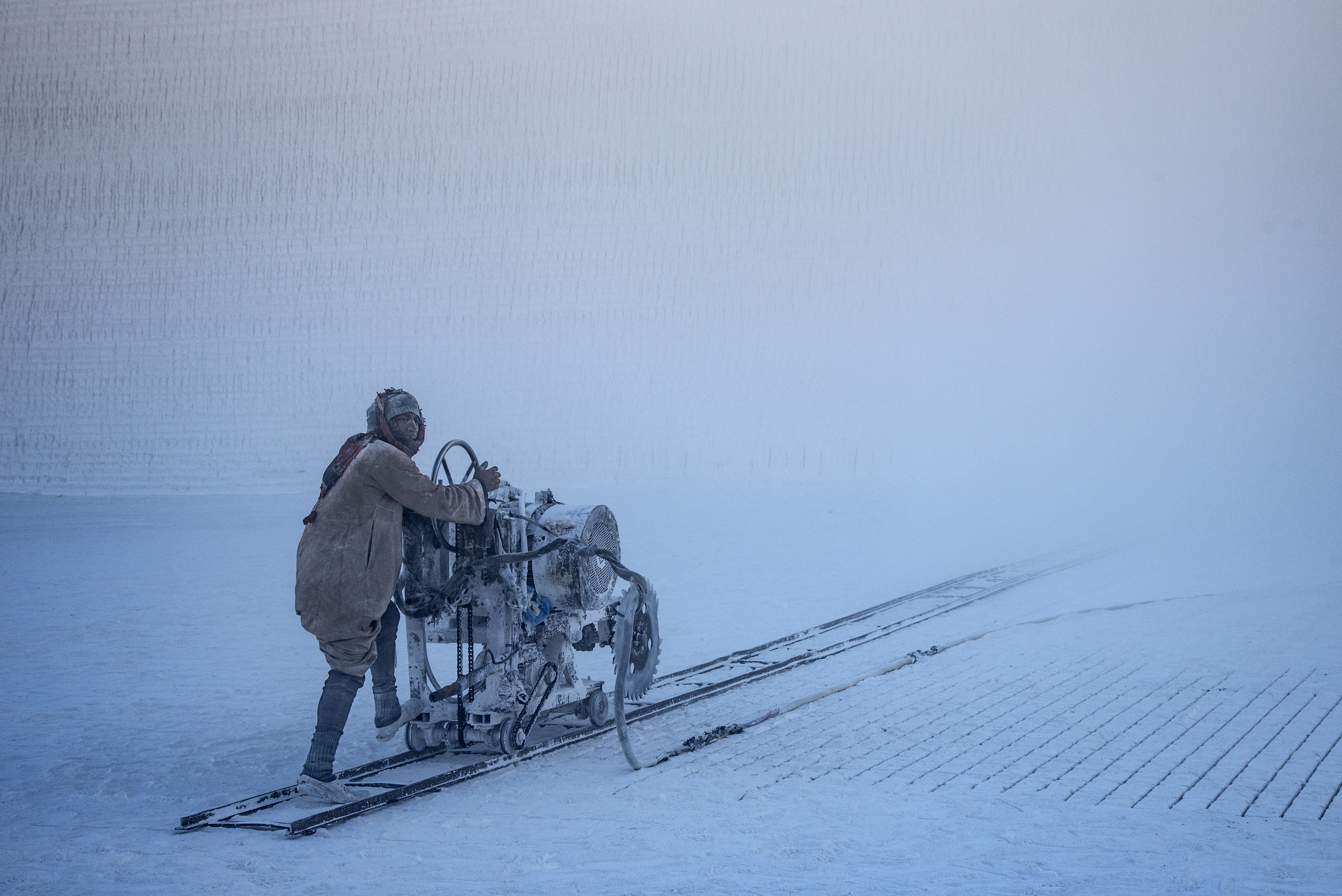 This is an image with the theme "Africa on the Move or Transport" from: Egypt